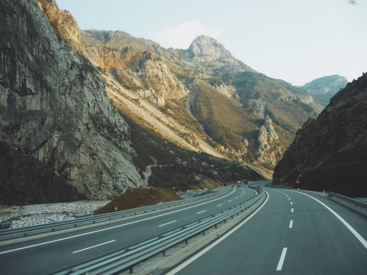 The A1 motorway